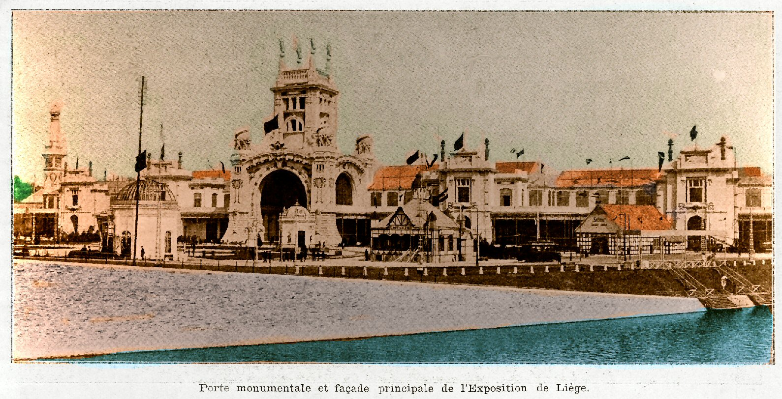 Principal façade of the Liege Universal Exposition of 1905